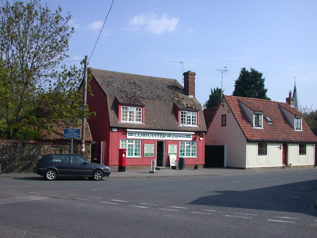 Ickleton, Cambridgeshire: Post Office and Costcutter store.